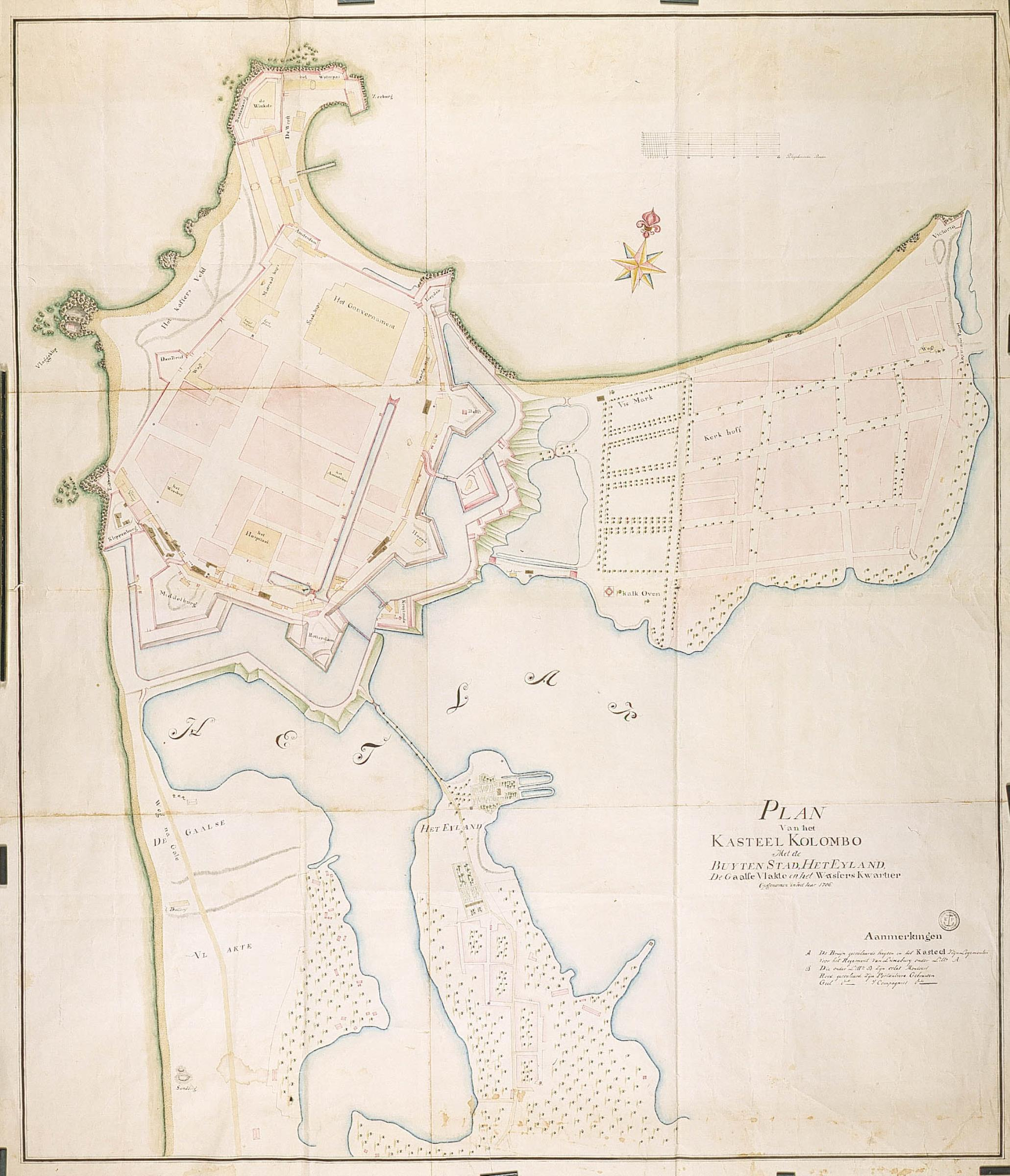 According to the Leupe catalogue (NA), the original title reads: Plan van het Kasteel Kolombo, met de buytenstad, het Eyland, de Gaalsche Vlakte en het Wassers Kwartier, opgenomen in het jaar 1786. The lodgings of the regiment of Luxaburg are indicated in brown. Notes on reverse: Nr. 18; [Blue label ODG] Plan en situatie van het Kasteel Colombo met de buitenstad. [Printed label] nr. 523. Key: A-B Topographical names mentioned: Colombo, Batenburg, den Briel, Enckhuysen, Middelburgh, Rotterdam, Hoorn, Amsterdam, Delvt, Leyden, Zeeburg, Klippenburgh, Victoria.